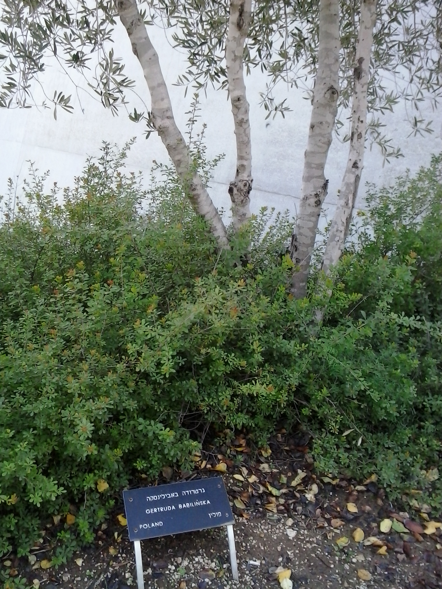 The tree planted at Yad Vashem honoring Righteous Among the Nations Gertruda Babilinska